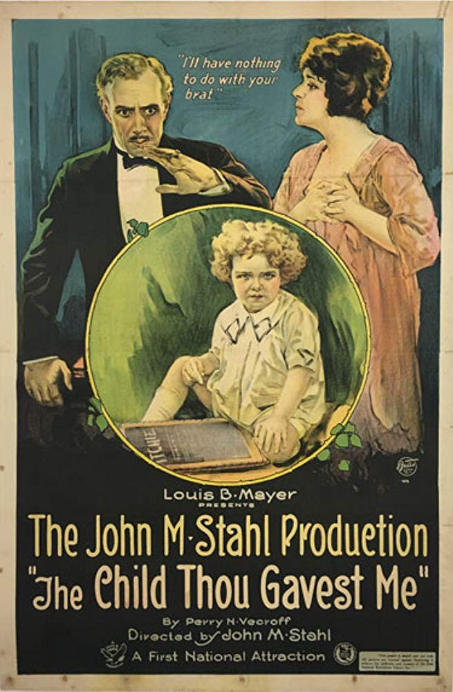 This is a poster for the 1921 American silent drama film The Child Thou Gavest Me.